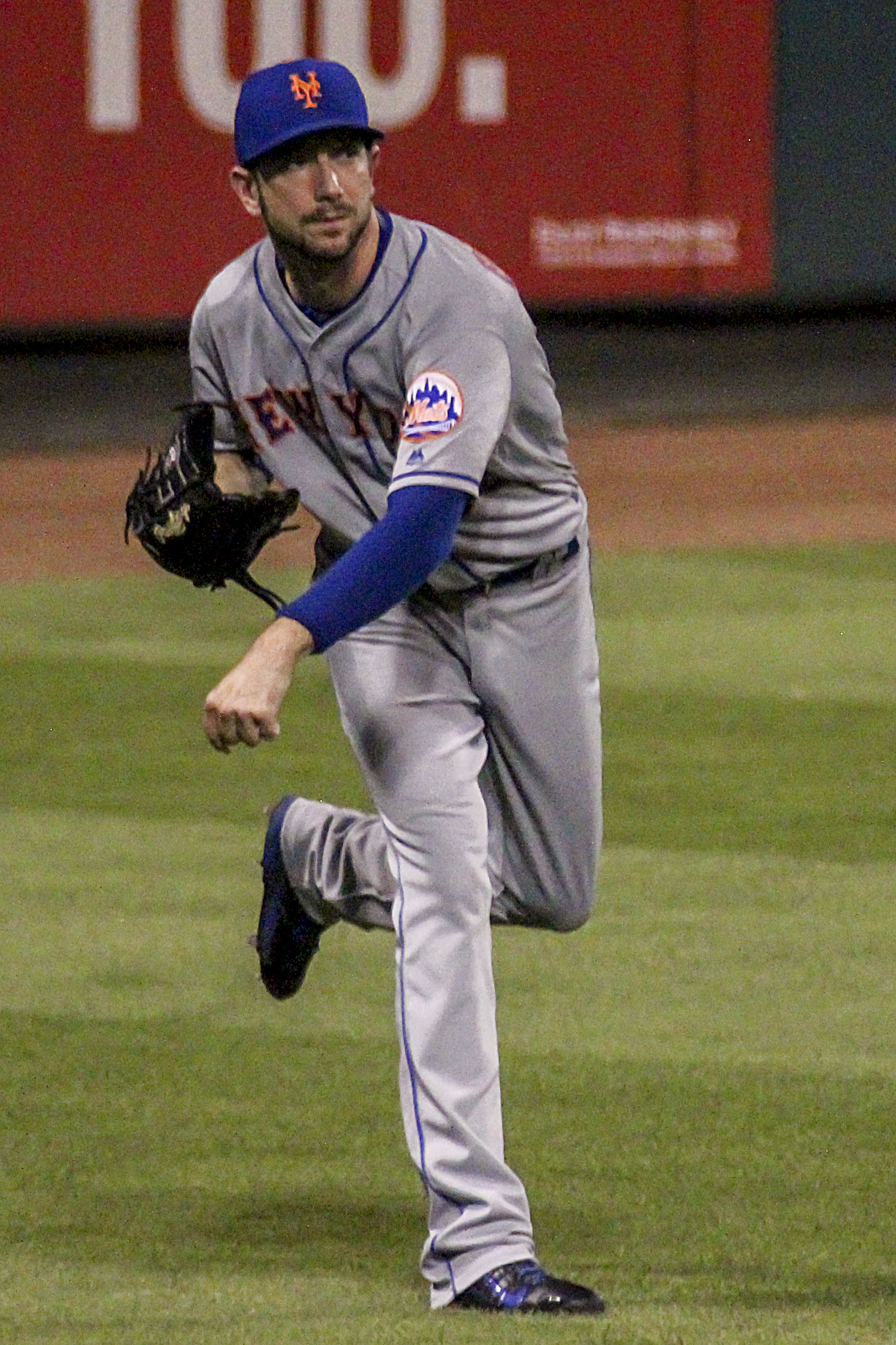 Jerry Blevins of the New York Mets. 2016